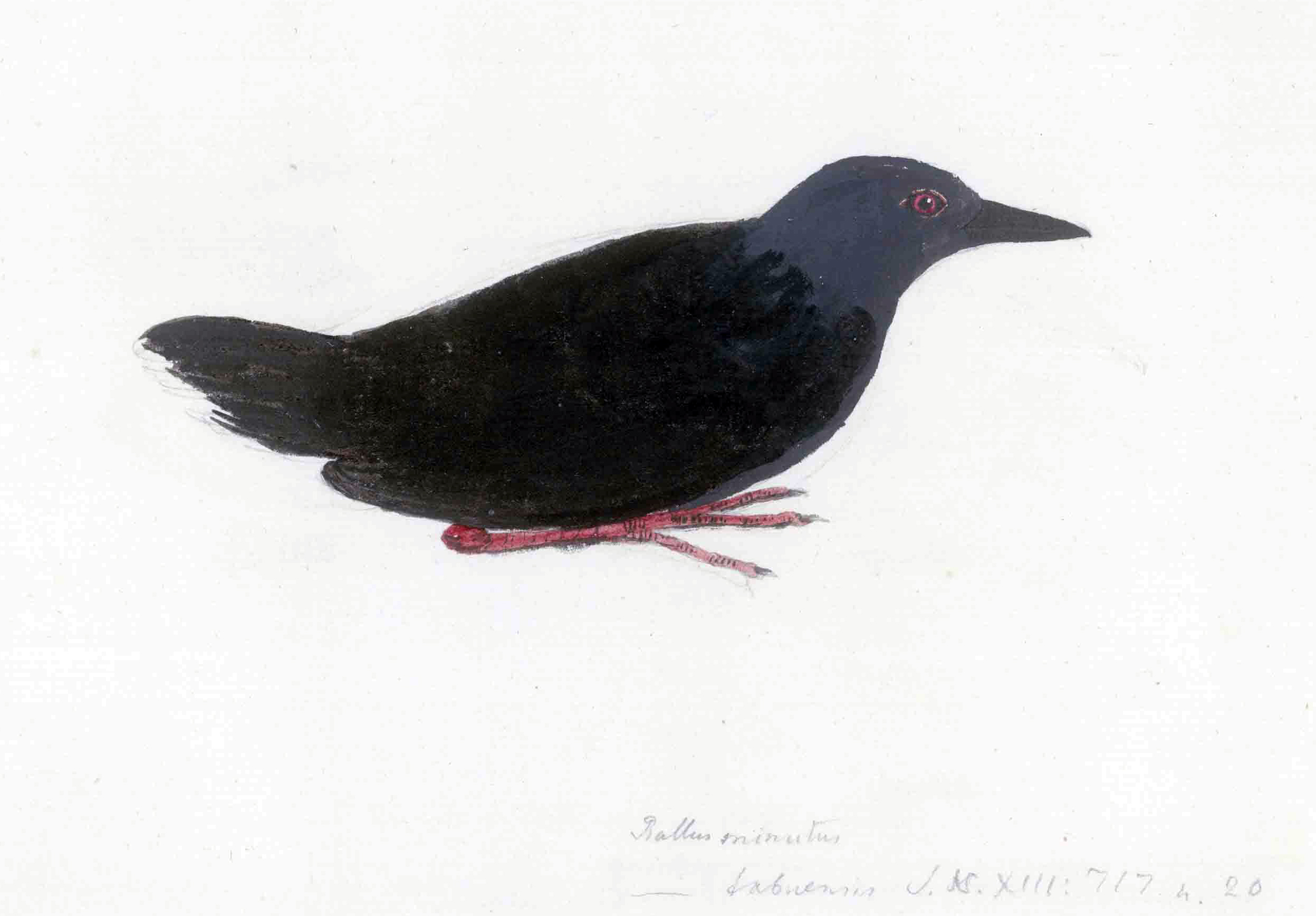 Ff. 130. Watercolour painting by George Forster annotated 'Rallus minutus'. Made during Captain James Cook's second voyage to explore the southern continent (1772-75).